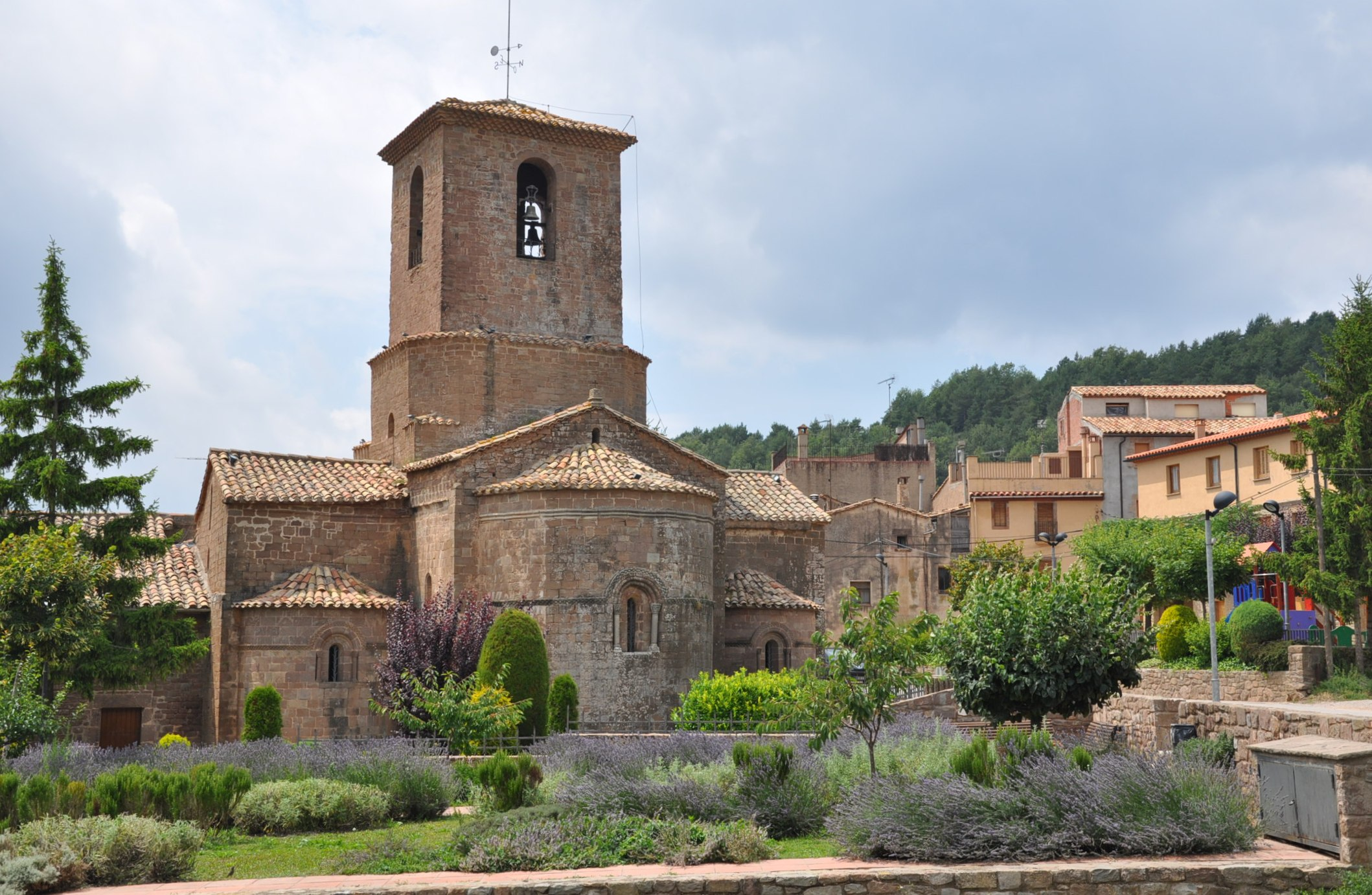 Church and monastery of "Santa Maria de l'Estany" in l'Estany (Comarca of Bages, Catalonia, Spain).